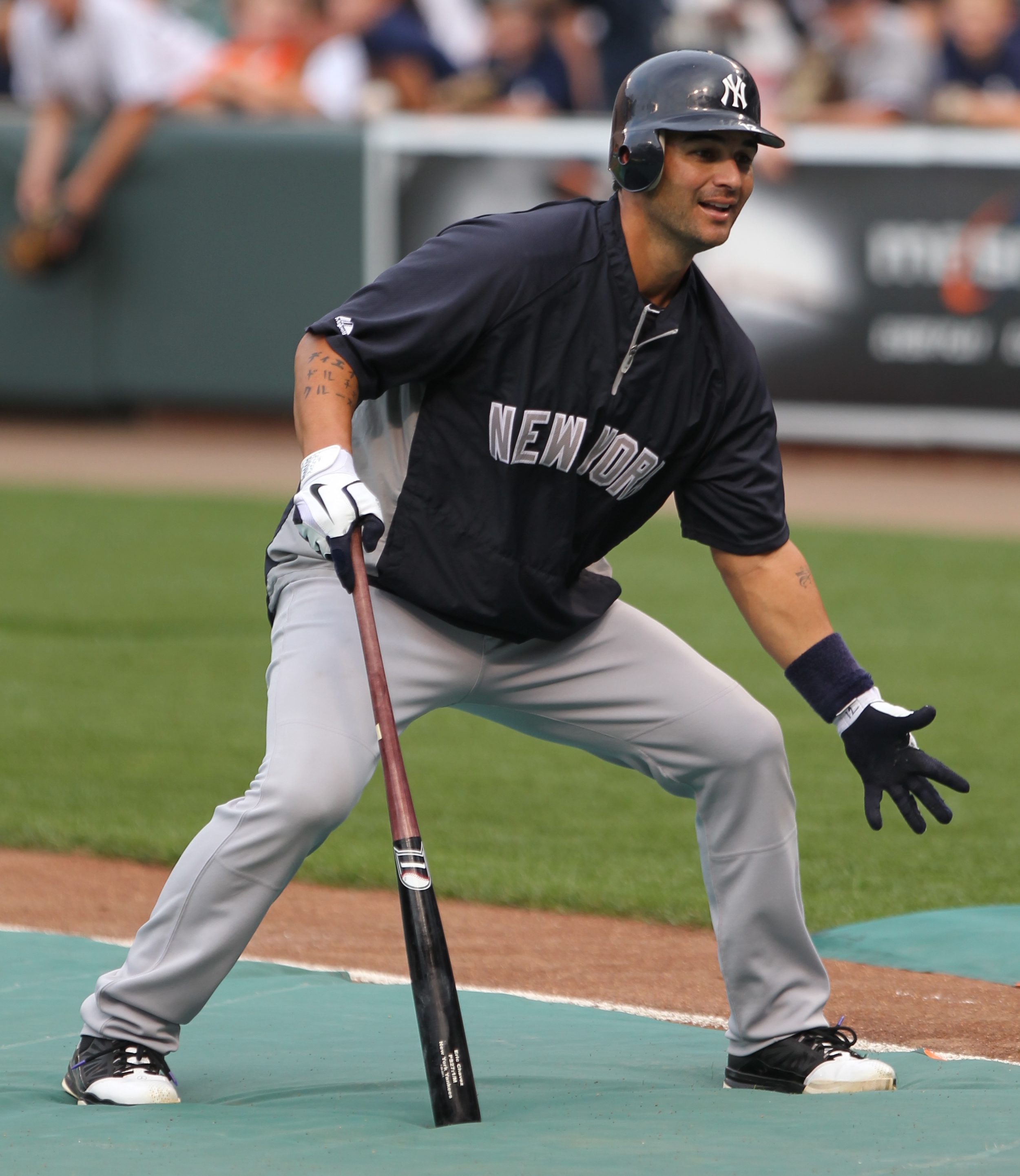 Eric Chavez